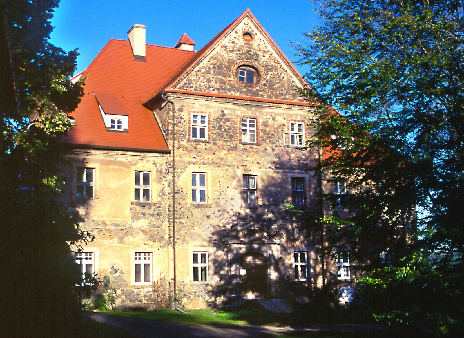 Leuba, Castle